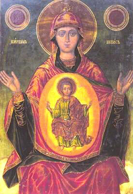 Platitera from Trinity Church in Bansko.